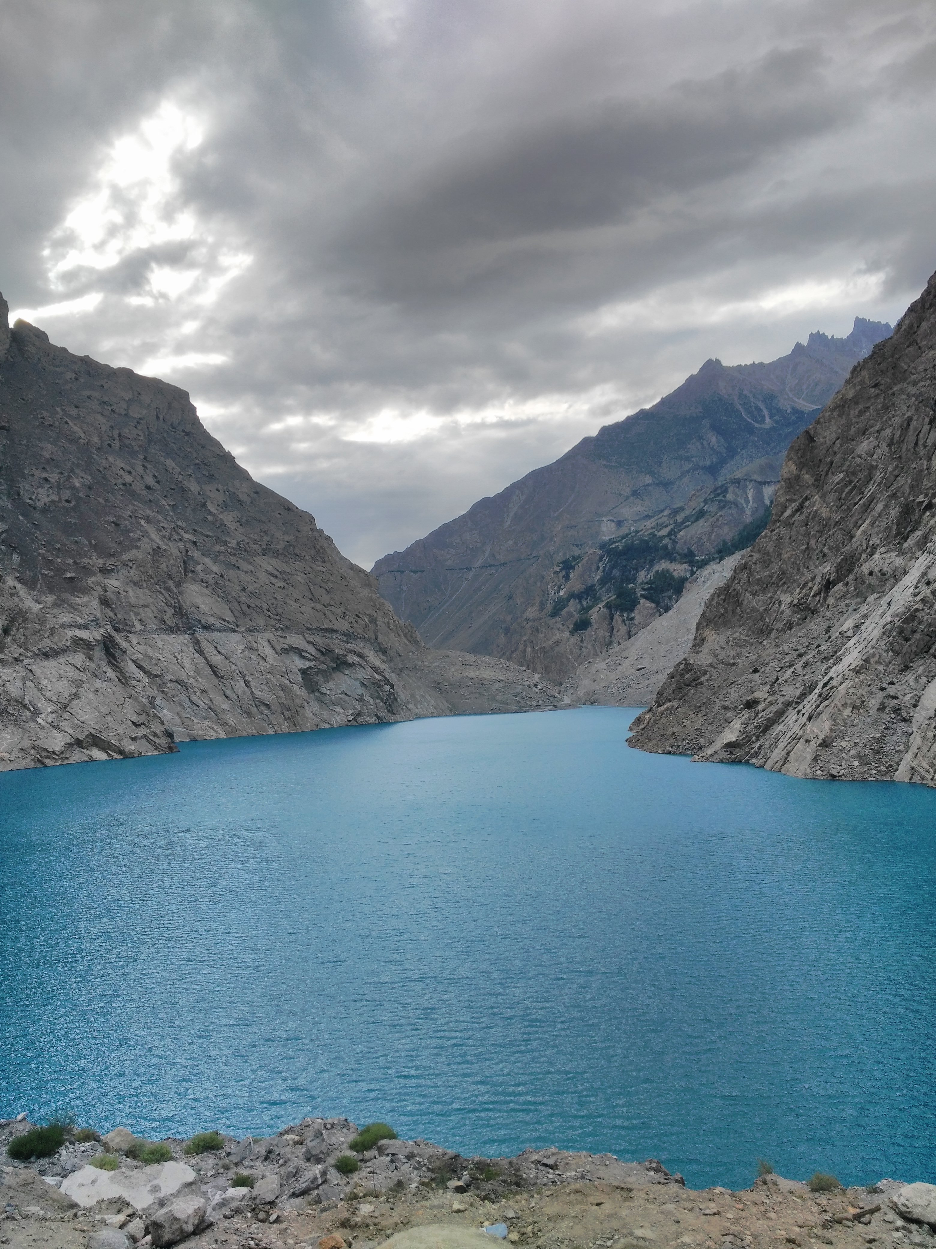 Lake ata'abad near Gilgit, Pakistan.